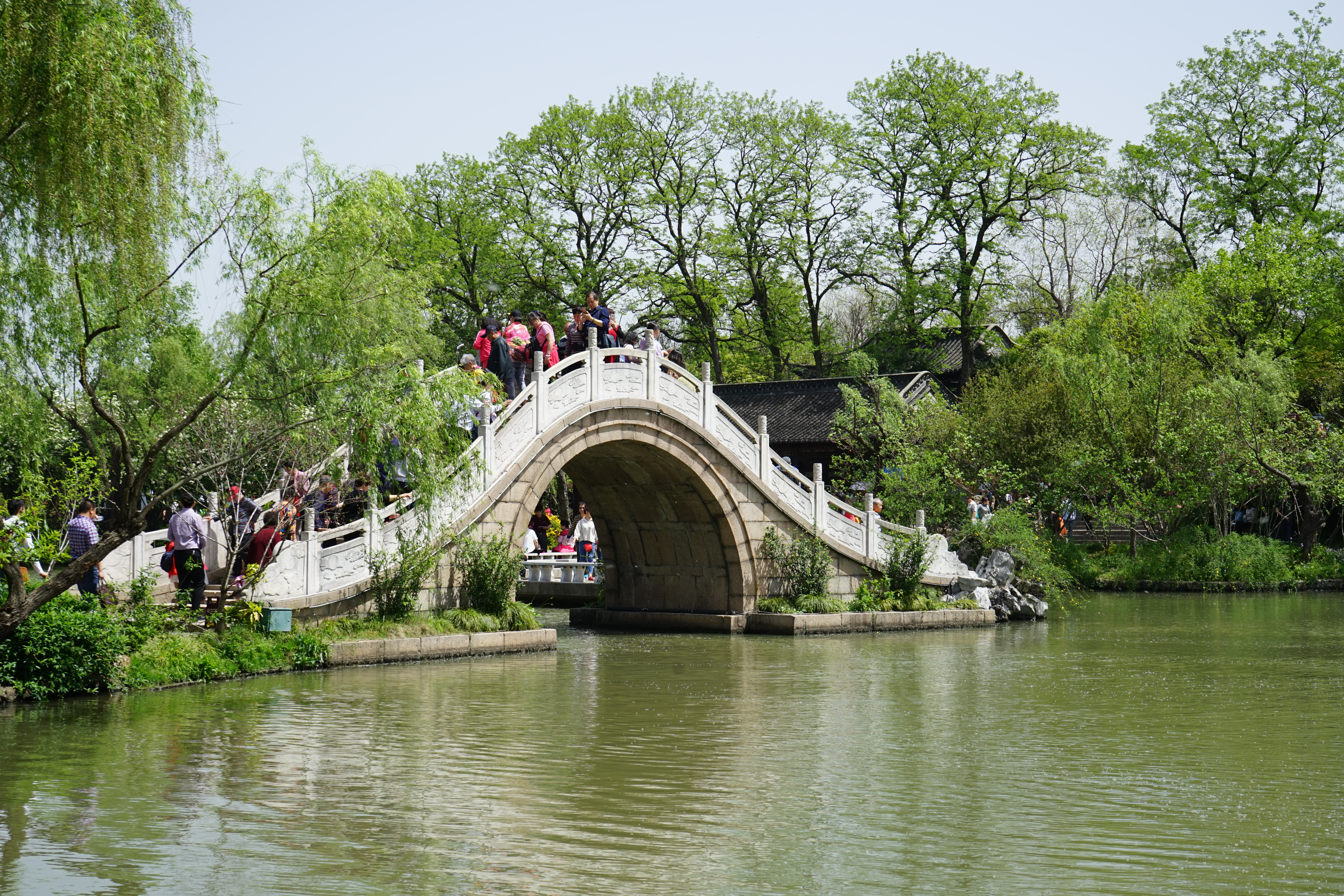 Twenti-four Bridge is actually a complex of buildings, zigzag bridge and Playing Flute Pavilion. The jade-belt-like arch bridge is 24 meters long, 2.4 meters wide and had 24 steps as well as 24 balustrades of white jade. It is also a good place suggesed to appreciate the moonlight scenery